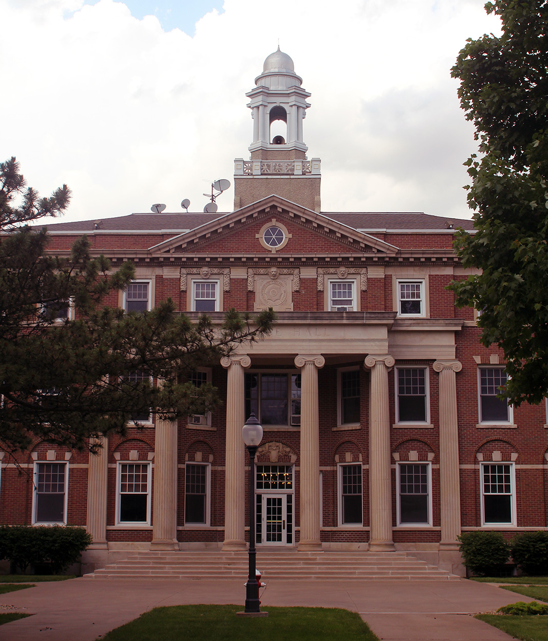 The entrance of Wallace Hall is modeled after the east portico of the ancient Erechtheum of the Athenian acropolis. The building houses historic classrooms used by all living alumni of Monmouth College.